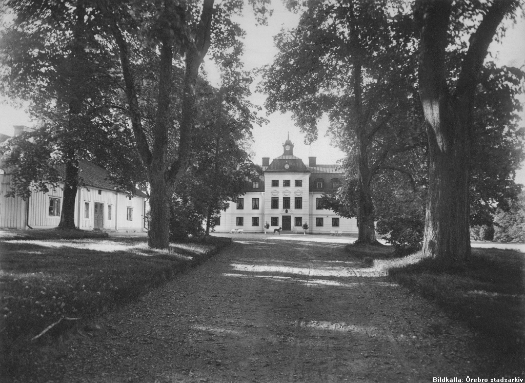 The manor Kåvi, outside Örebro, Sweden